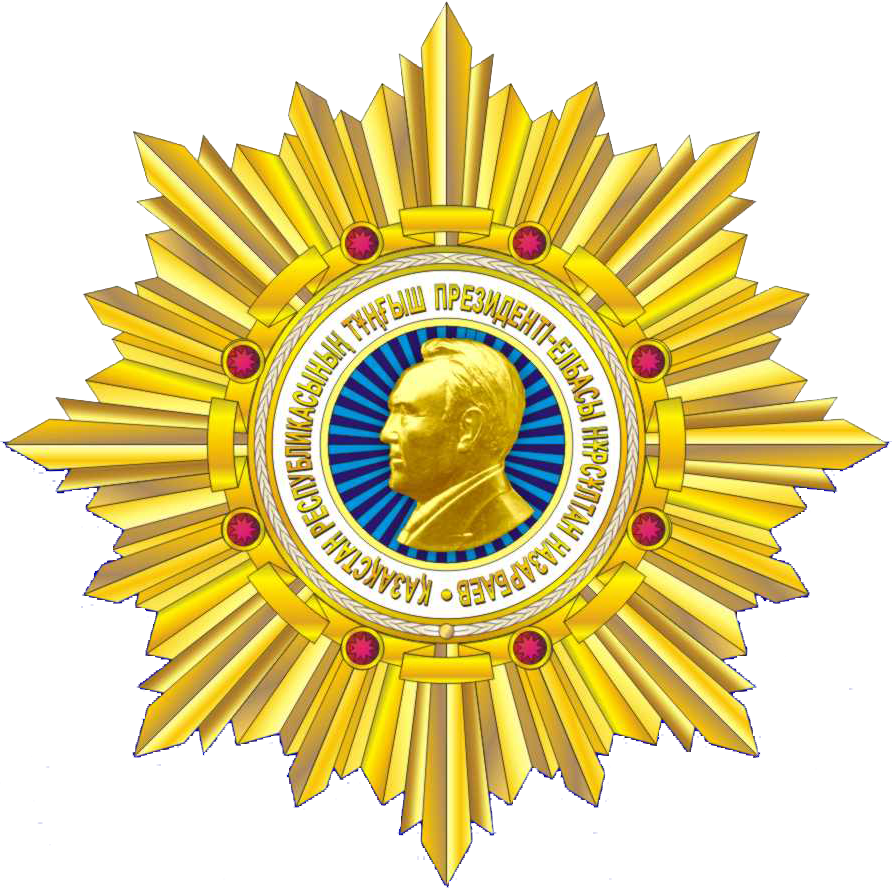 Star of order "The first President of Republic Kazakhstan Noursultan Nazarbaev" (Қазақстан Республикасының Тұңғыш Президенті Нұрсұлтан Назарбаев) of Republic Kazakhstan. Type 4